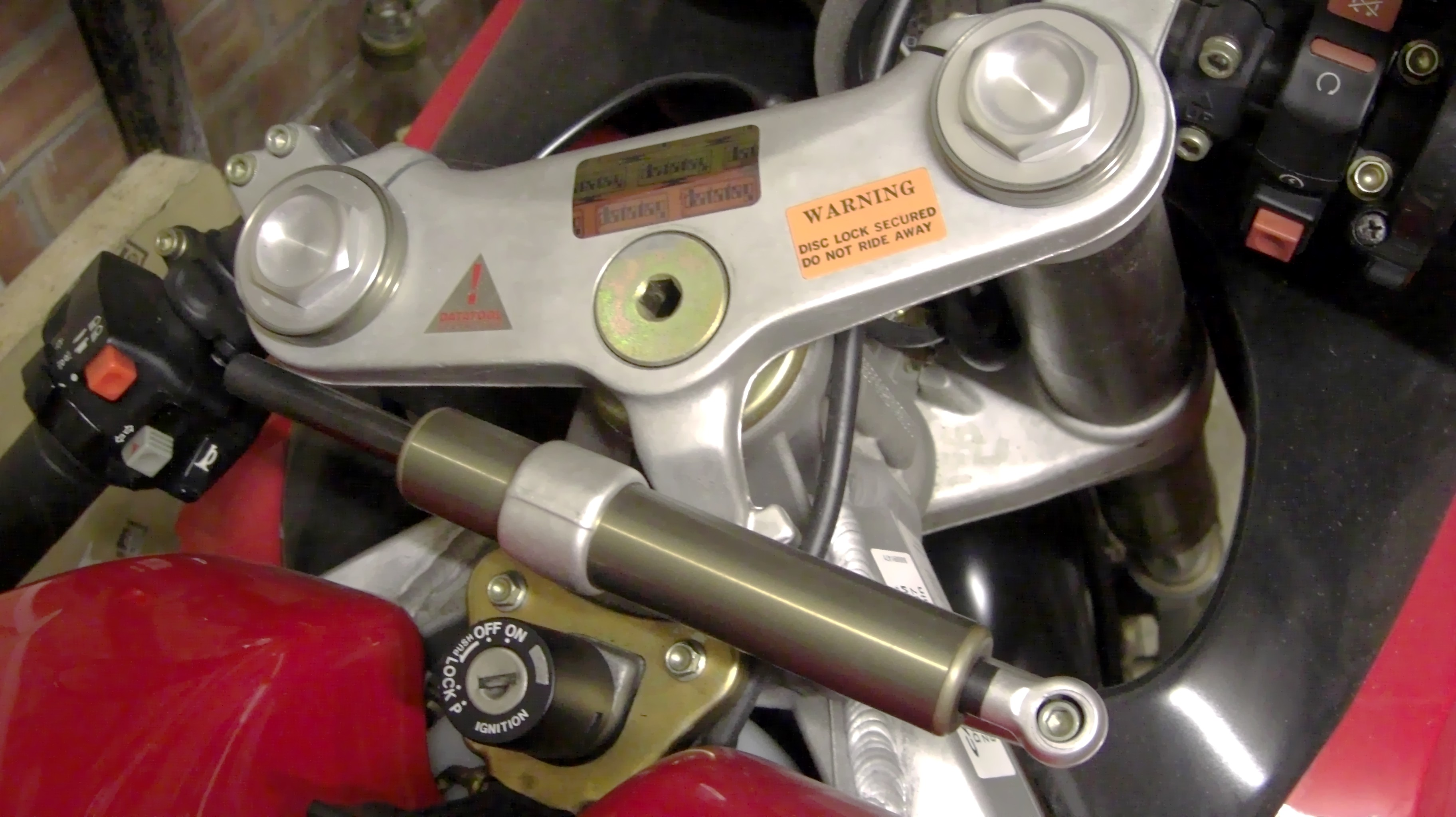 Transverse linear motorcycle steering damper on a 2001 Cagiva Mito